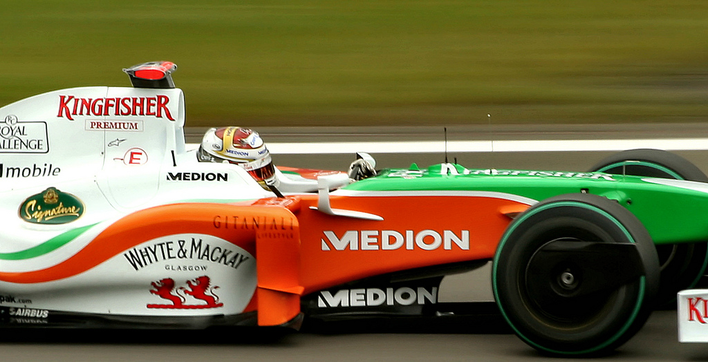 Adrian Sutil driving for Force India at the 2009 German Grand Prix.